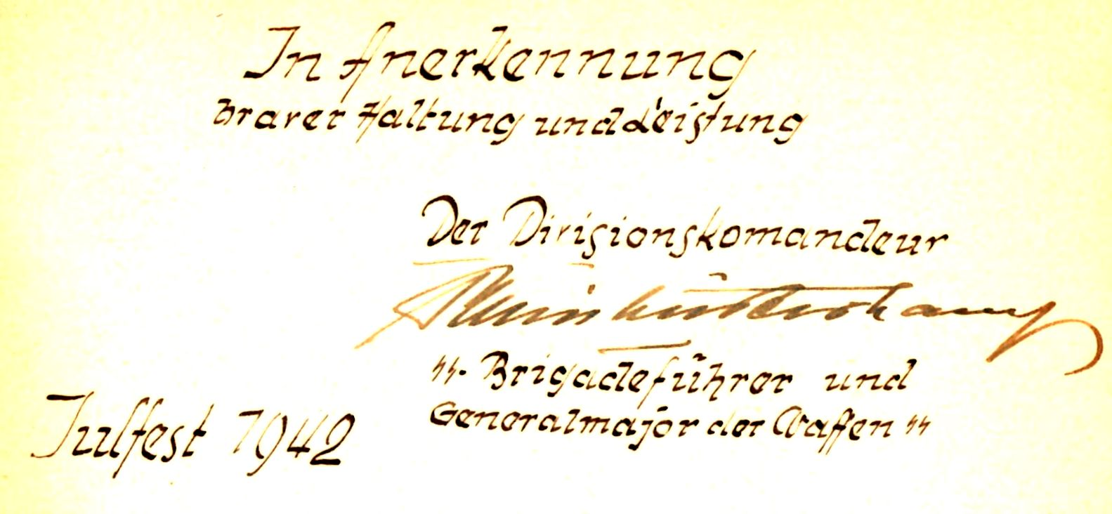 Translation of the text of the note of Kleinheisterkamp: "In recognition of the most brave attitude and leadership The division commander — Signature of Kleinheisterkamp — SS-Brigadeführer und Generalmajor der Waffen-SS (SS-Brigadeführer and brigadier general of the Waffen-SS) Julfest, 1942"